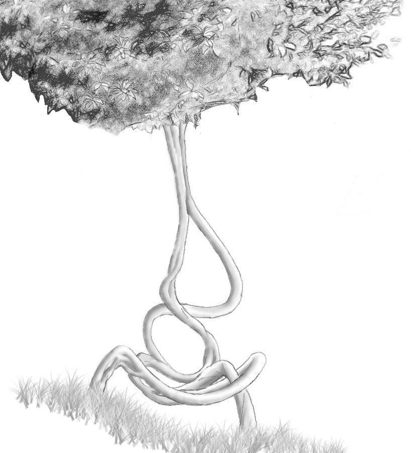 A representation drawing of Plantware's living Fig chair. A group of fig roots shaped into a chair.